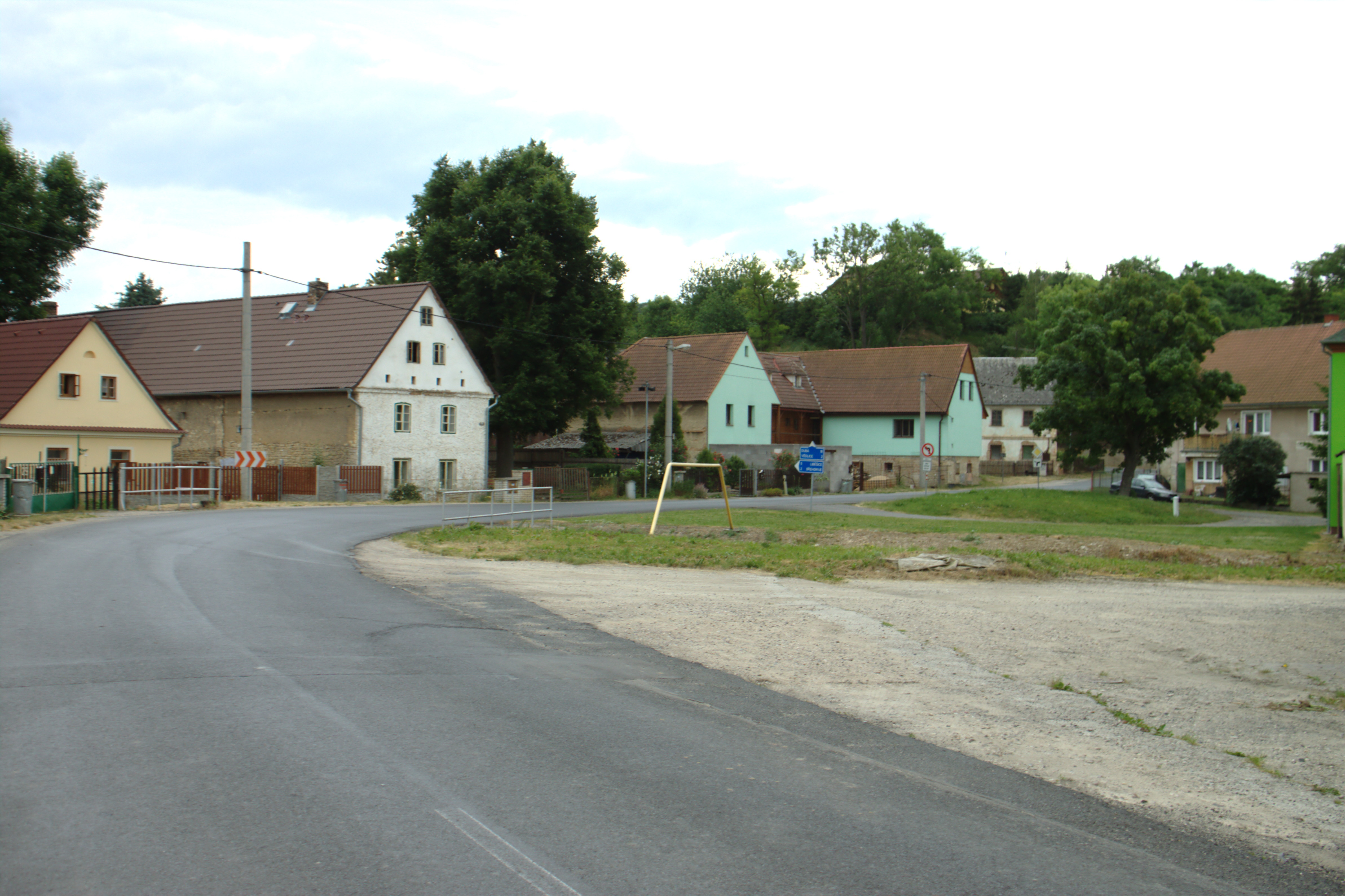 Buildings in the village of Drahobuz, Ústí Region, CZ